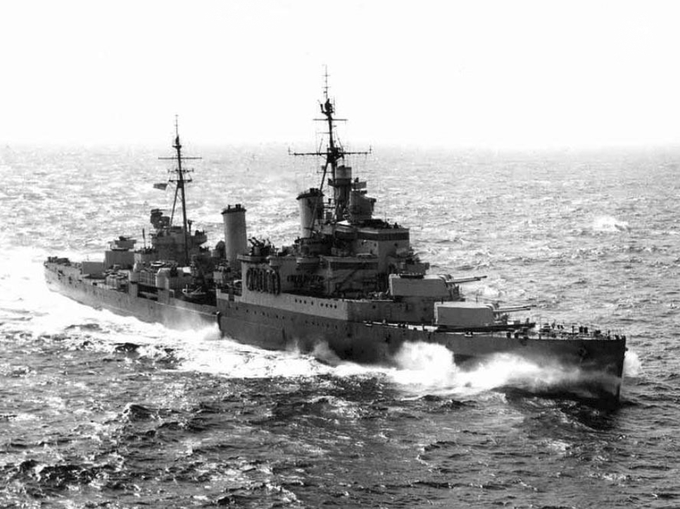 Aerial photograph of British cruiser HMS SHEFFIELD underway.